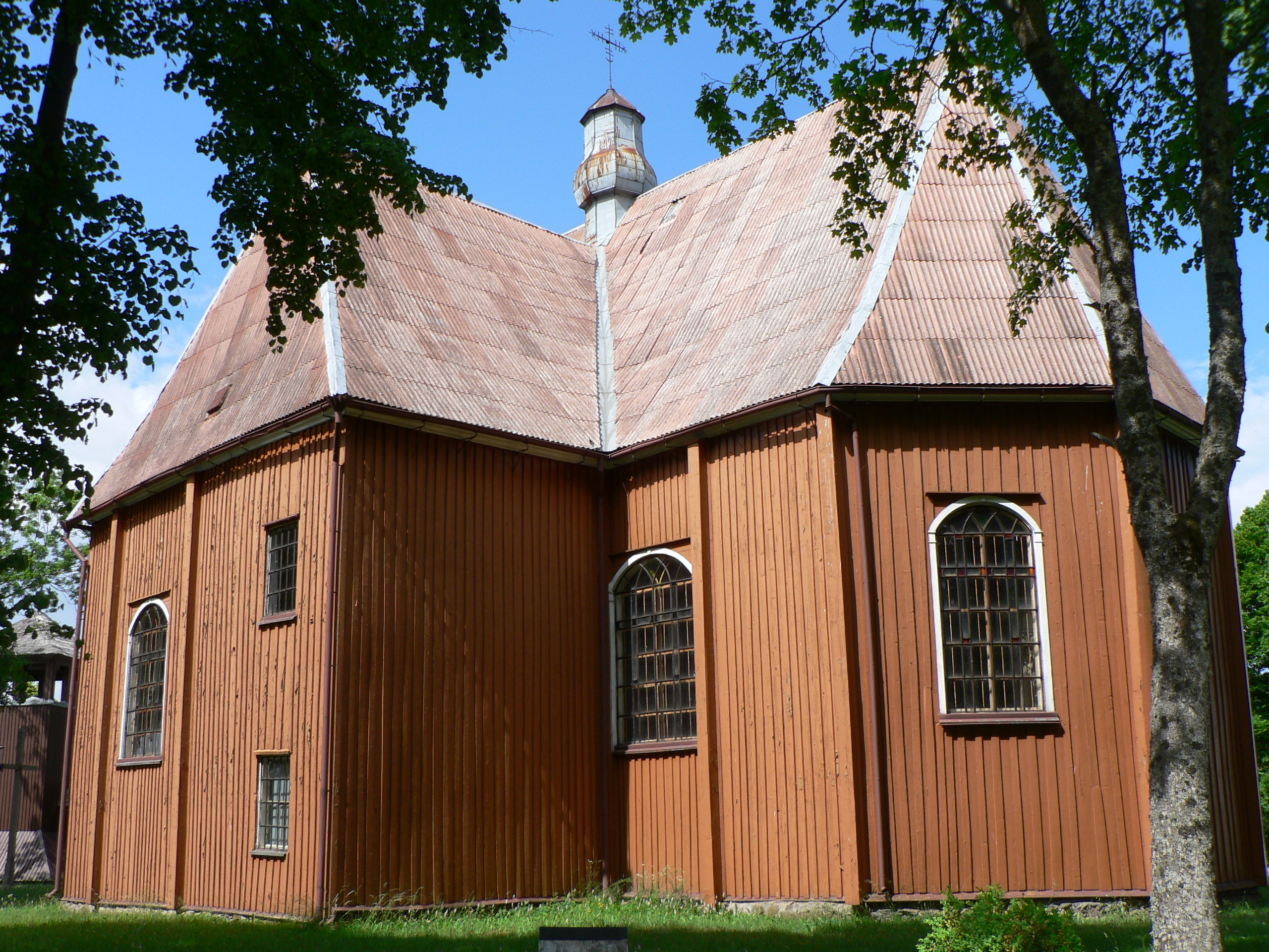 St. Paul and Peter wooden church in Plateliai, Lithuania. 1744 Author: Wojsyl, 2005